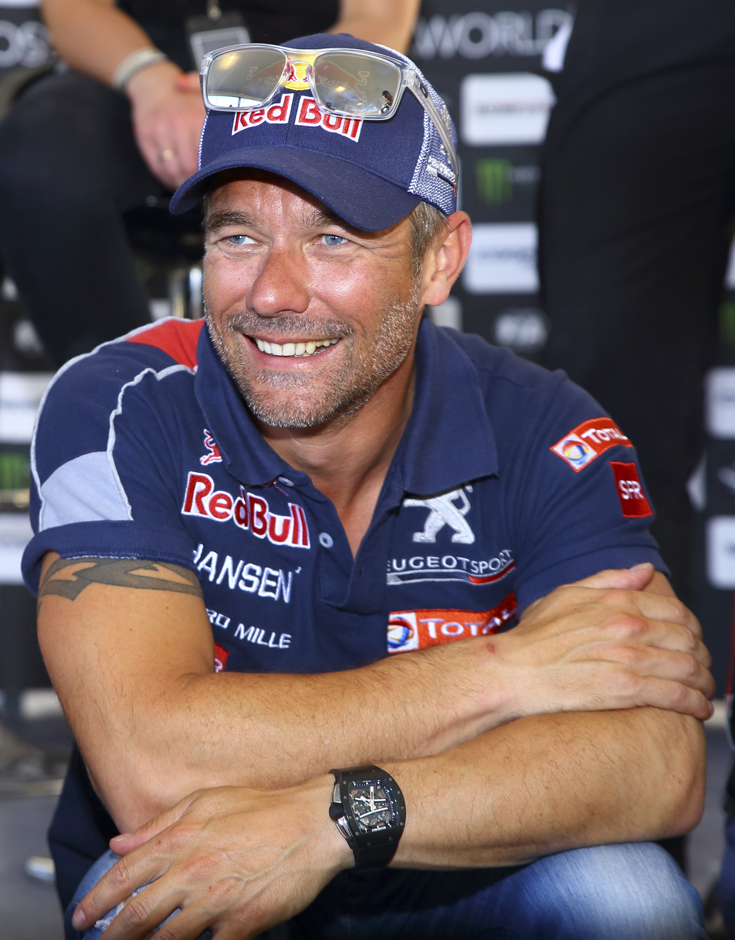 Toomas Heikkinen, , FIA World RX of Portugal 2017 in Montalegre